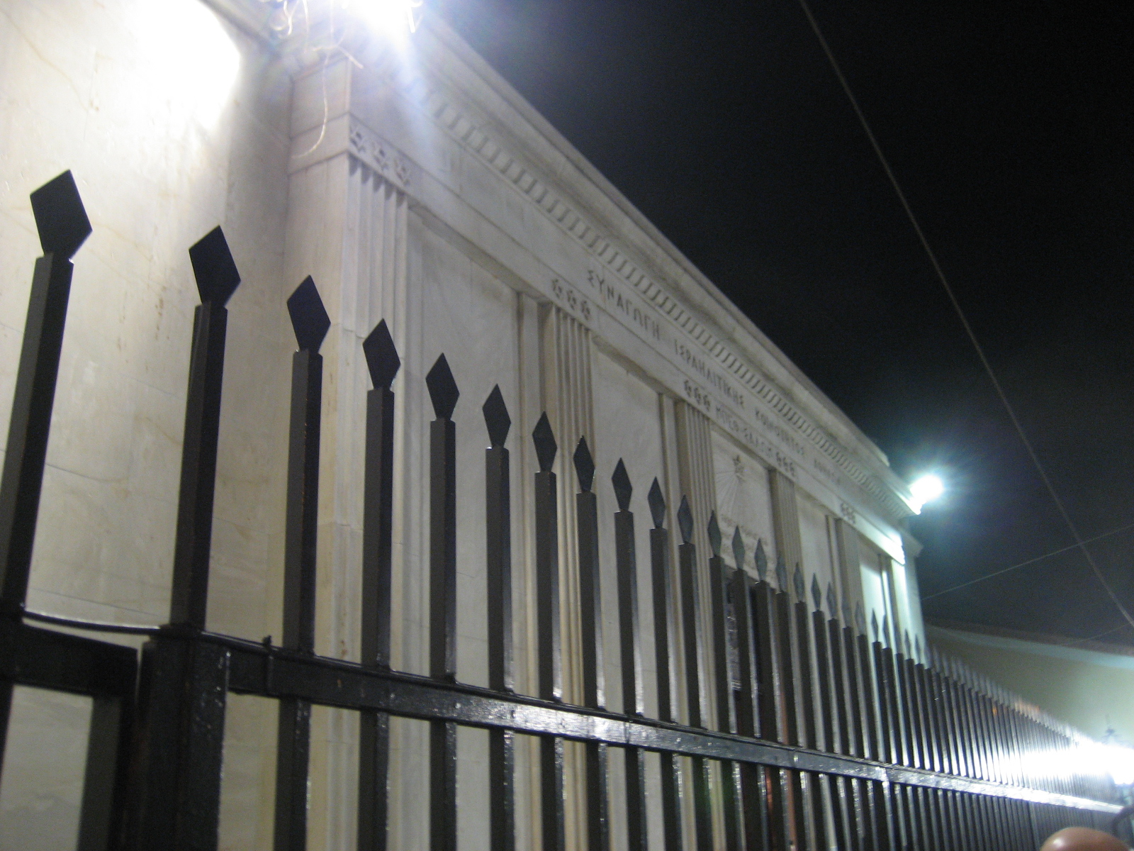 Exterior of the Beth Shalom Synagogue in Athens, Greece.